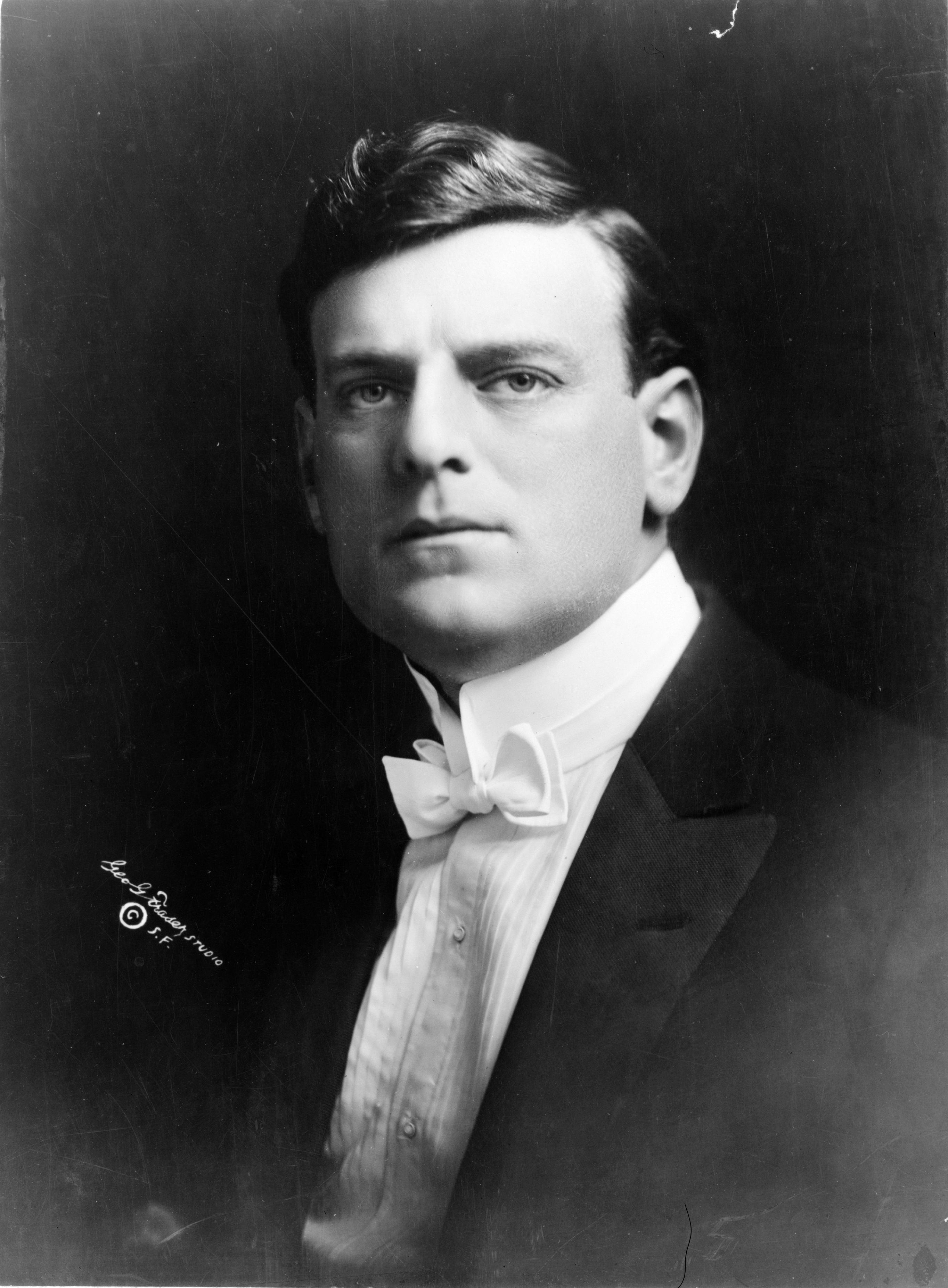 Gilbert M. Anderson a.k.a. Broncho Billy Anderson. Head-and-shoulders portrait, facing slightly left.